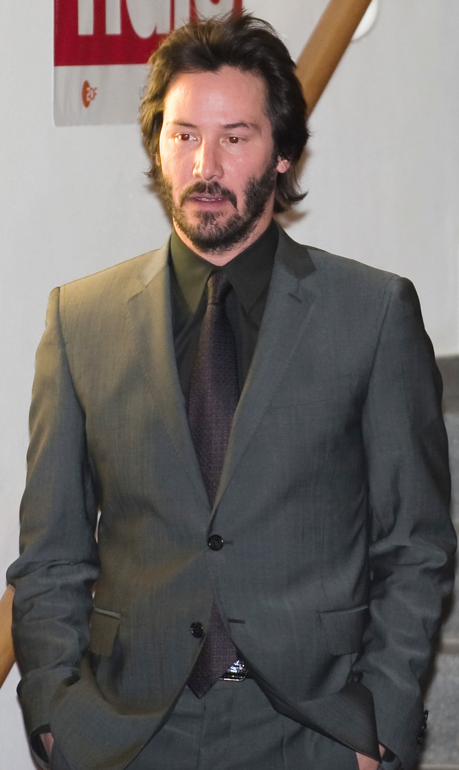 Keanu Reeves leaving the press conference for "The Private Lives of Pippa Lee", Berlinale 2009